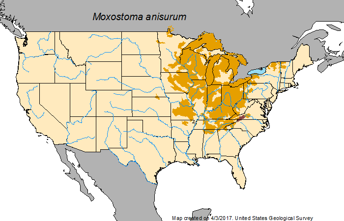 A photo of the distribution of the Silver Redhorse